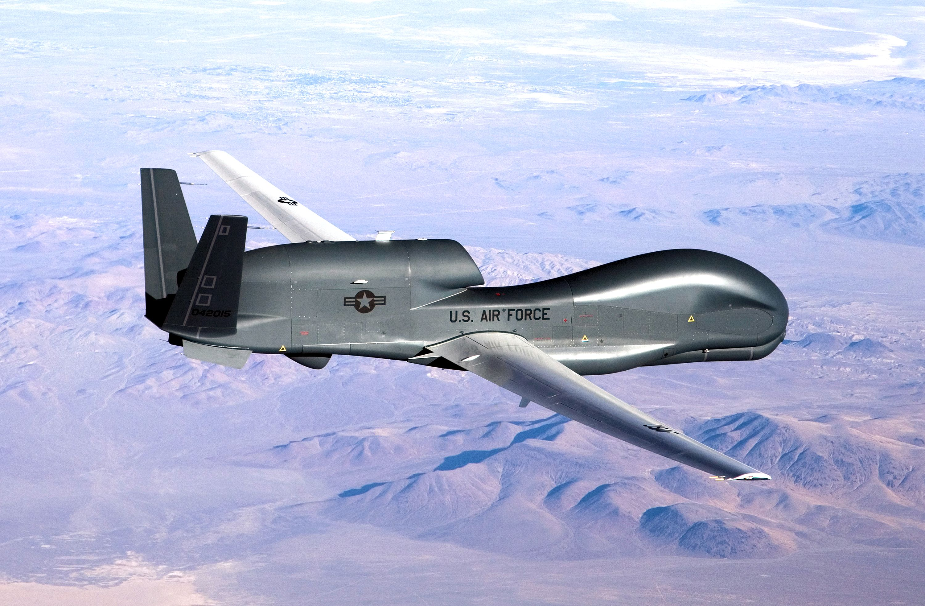 940th Wing - Northrop Grumman RQ-4B Block 20 Global Hawk 04-2015